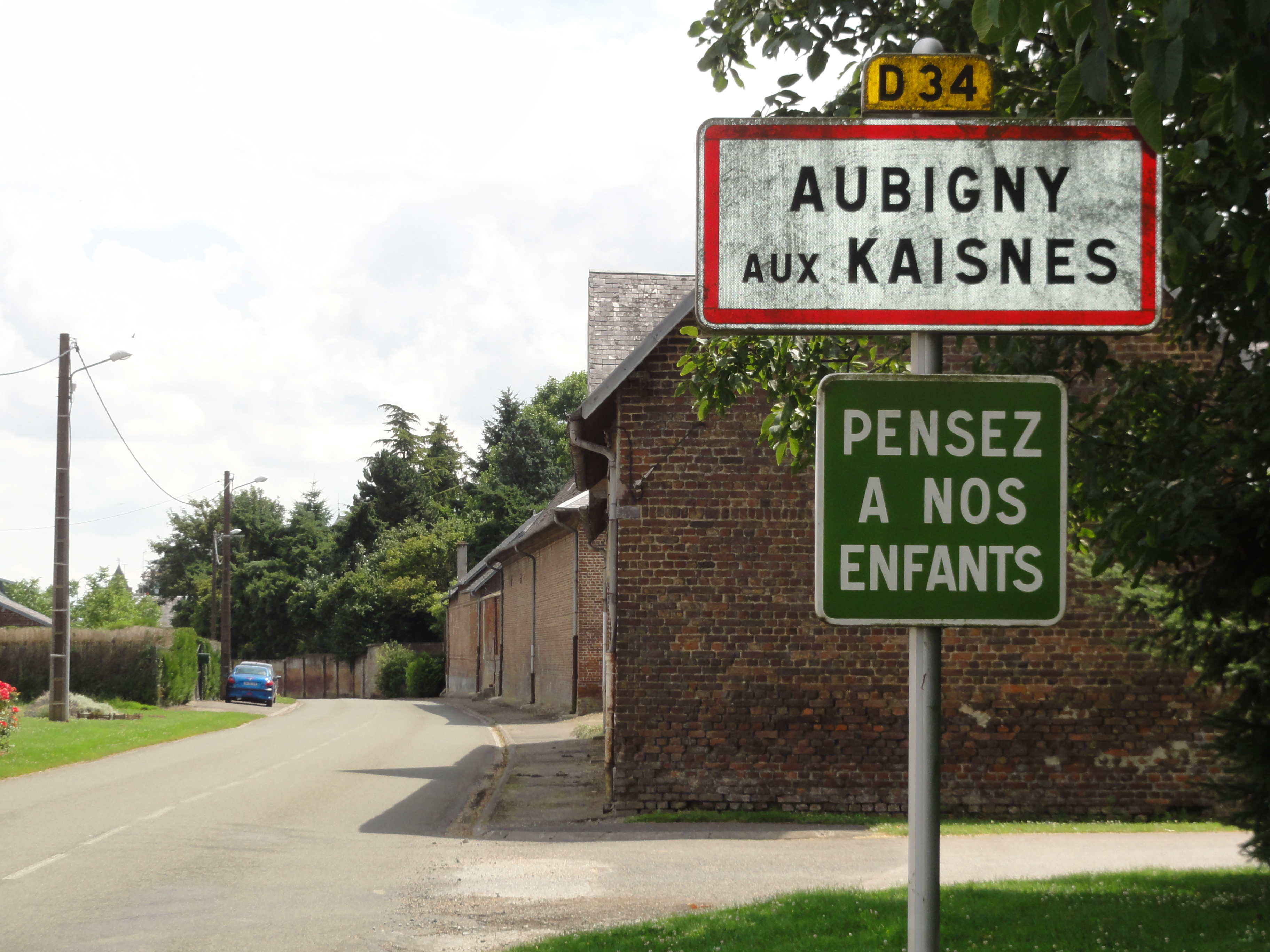 Aubigny-aux-Kaisnes (Aisne) city limit sign